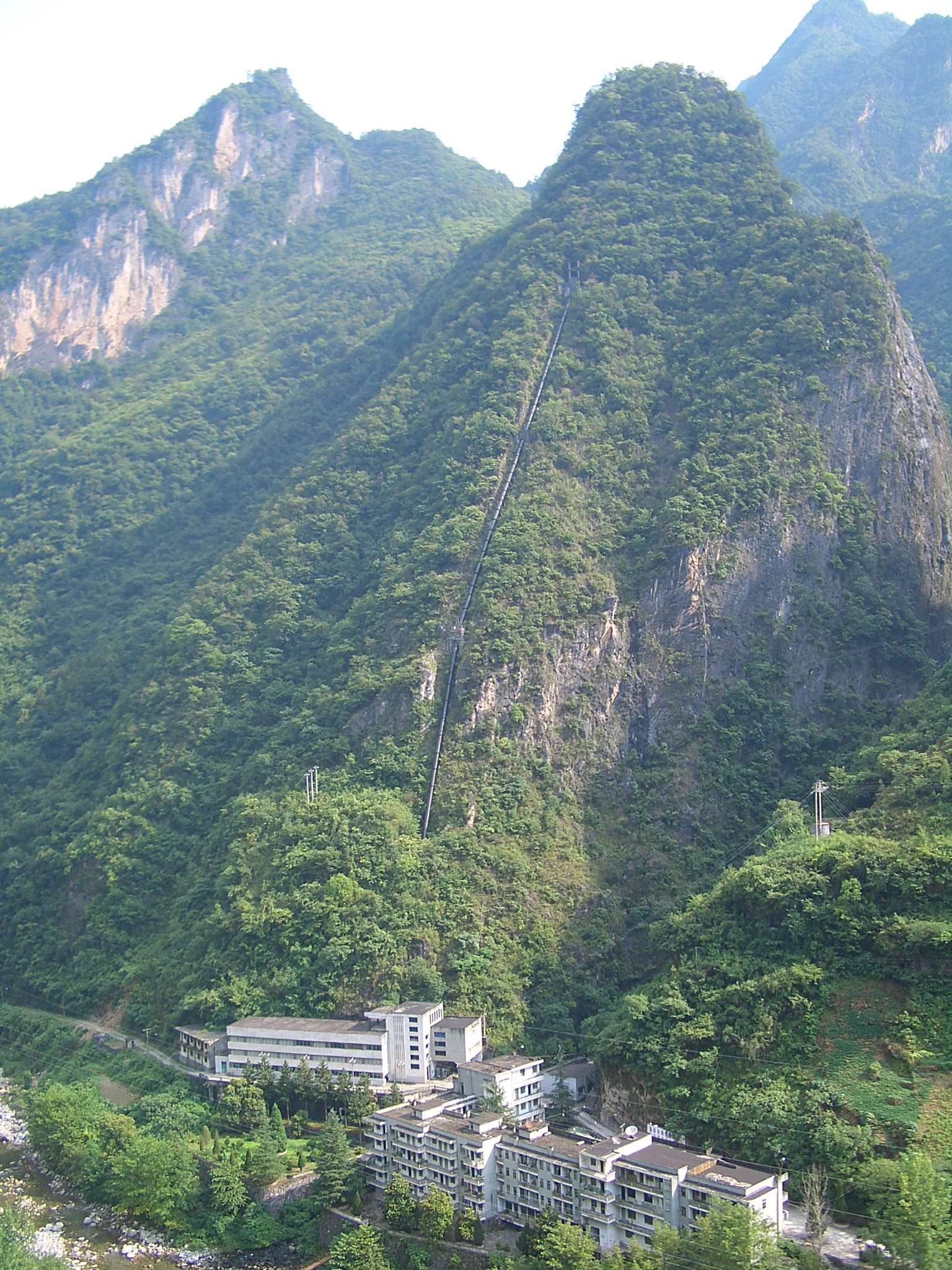 A small hydroelectric plant located south of the Houzibao Tunnel (on G209) in the Xiangping River valley (between Nanyang and Xiangping village in Xingshan County, Hubei). The power plant is run on the water that comes down the big black pipe (seen in some pictures) from the mountaintop nearby, and then is dumped into the river.